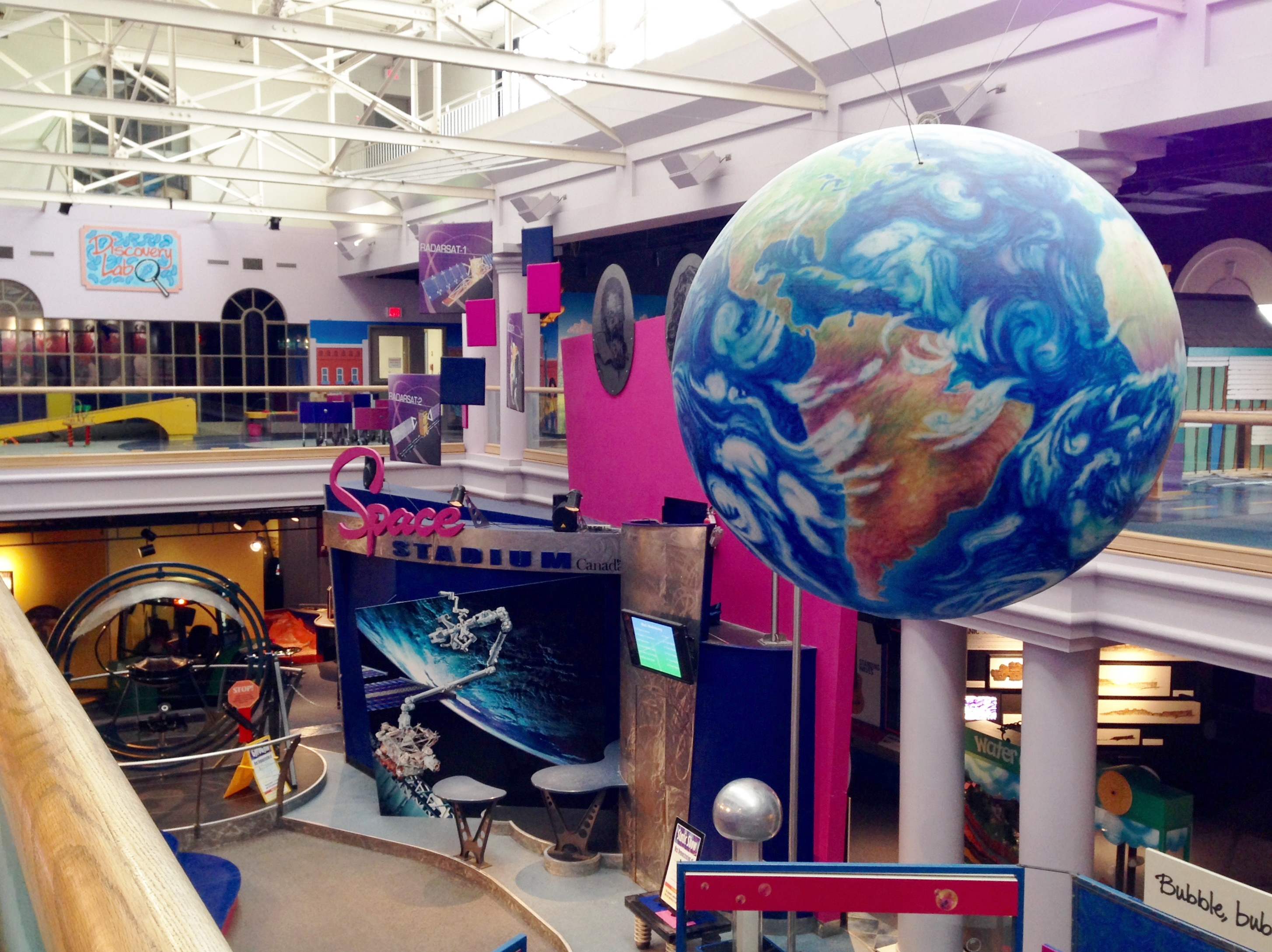 The exhibit floor of the Saskatchewan Science Centre, featuring the Space Stadium Stage.